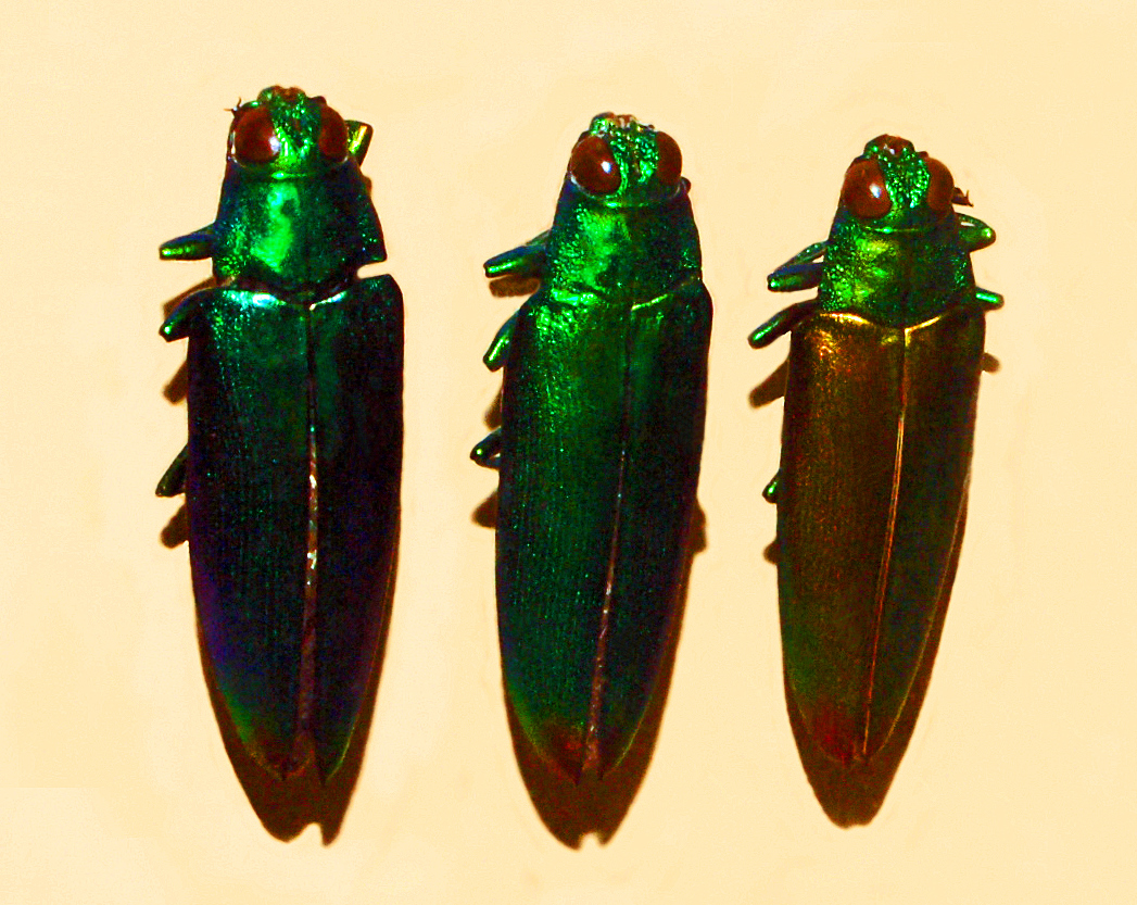 Chrysochroa fulminans from Sumatra